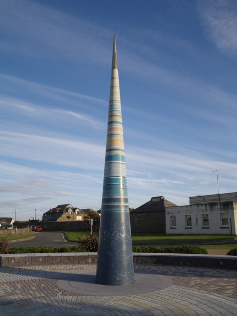 The Bude Light 2000. Built in 2000 as a millennium tribute to Sir Goldsworthy Gurney (1793-1875), a prolific Cornish inventor. 30 feet high, it was designed by Carole Vincent and Anthony Fanshawe, and uses fibre optics to light up at night. Gurney invented the Bude Light, a brilliant light created by introducing oxygen into the centre of a gas or oil flame, in 1830. It was used in the Houses of Parliament, for lighthouses, and to illuminate Gurney's house, now Bude Castle. In the background is Ergue-Gaberic Way, and on the right are 503207 and 489885.